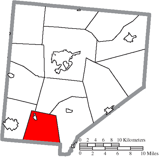 Map of the municipal and township boundaries of Clinton County, Ohio, United States, as of the 2000 census, with the location of Jefferson Township highlighted. Township borders are shown only in unincorporated areas in order to differentiate incorporated and unincorporated areas more clearly.